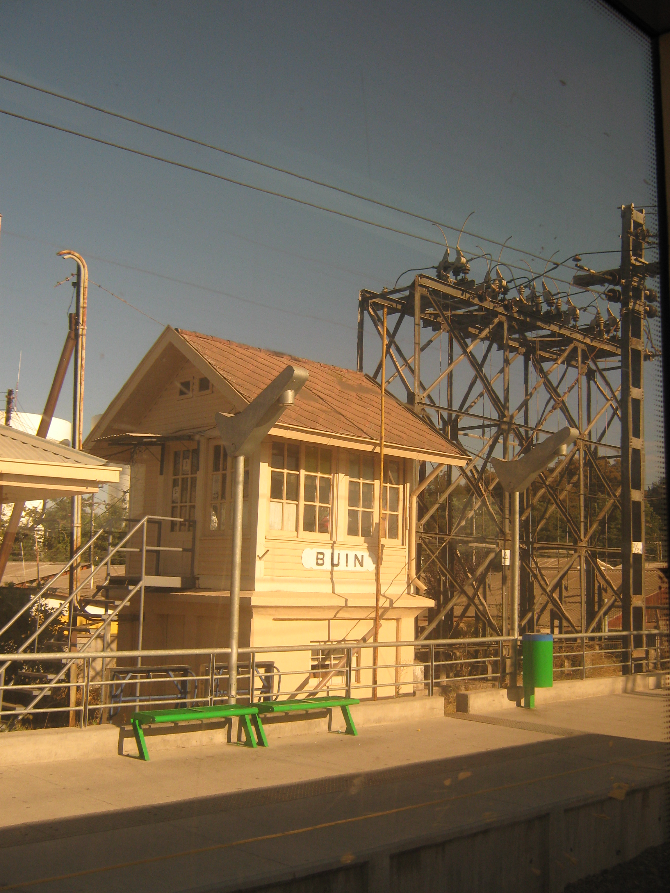 Buin, Metro Station Chile